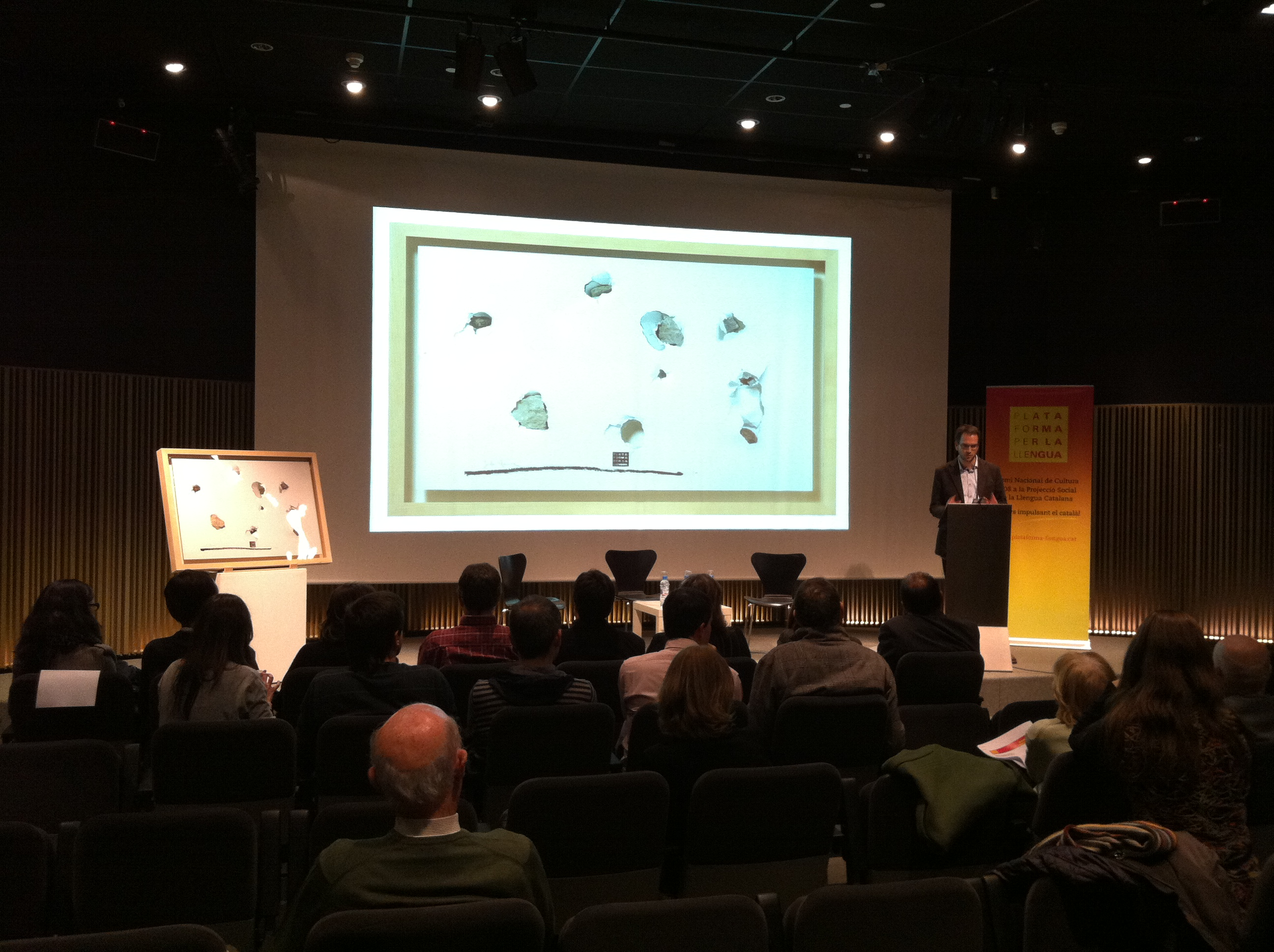 IPlataforma per la llengua. Act at MACBA Barcelona